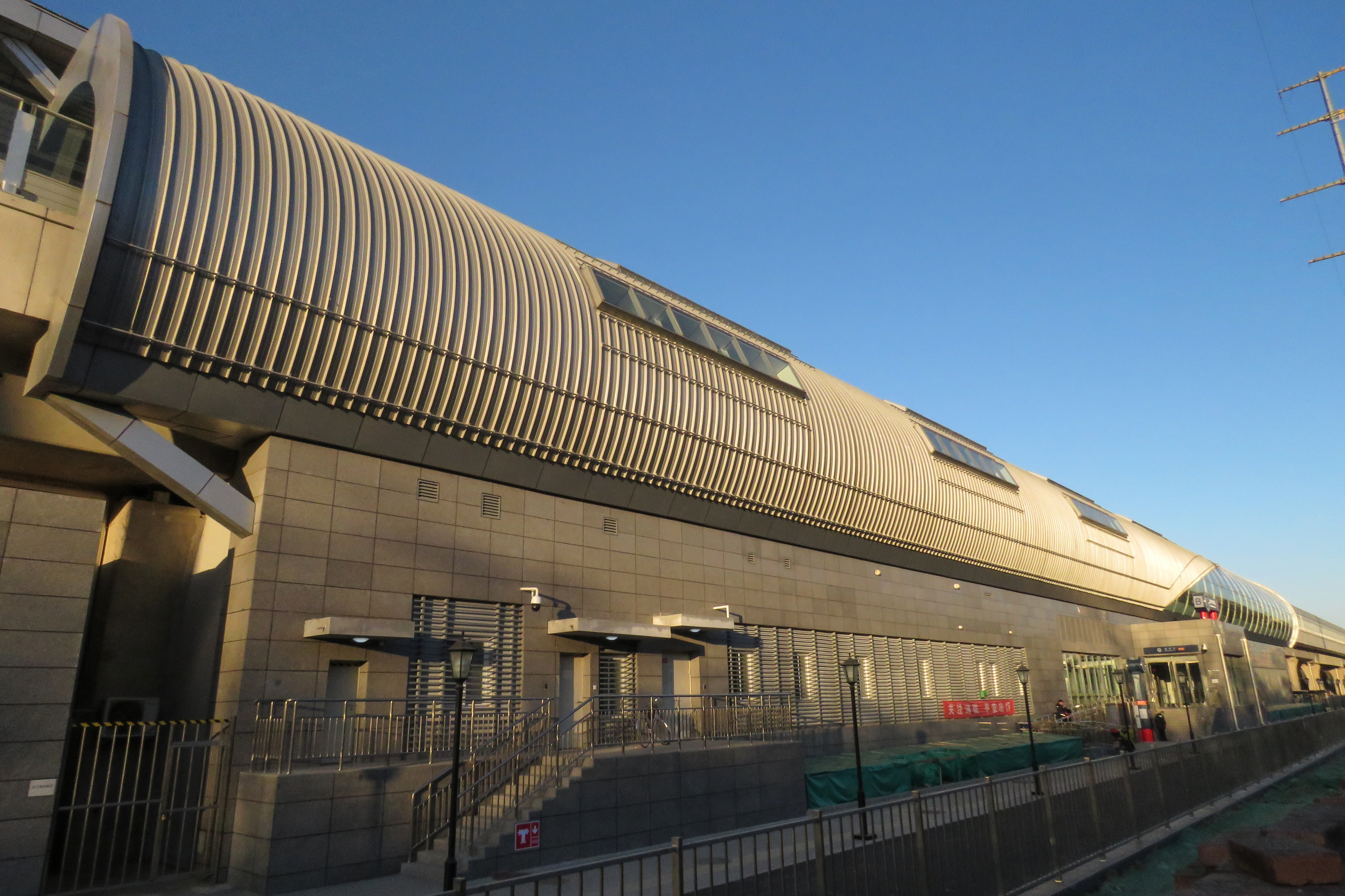 From the top of the wall.